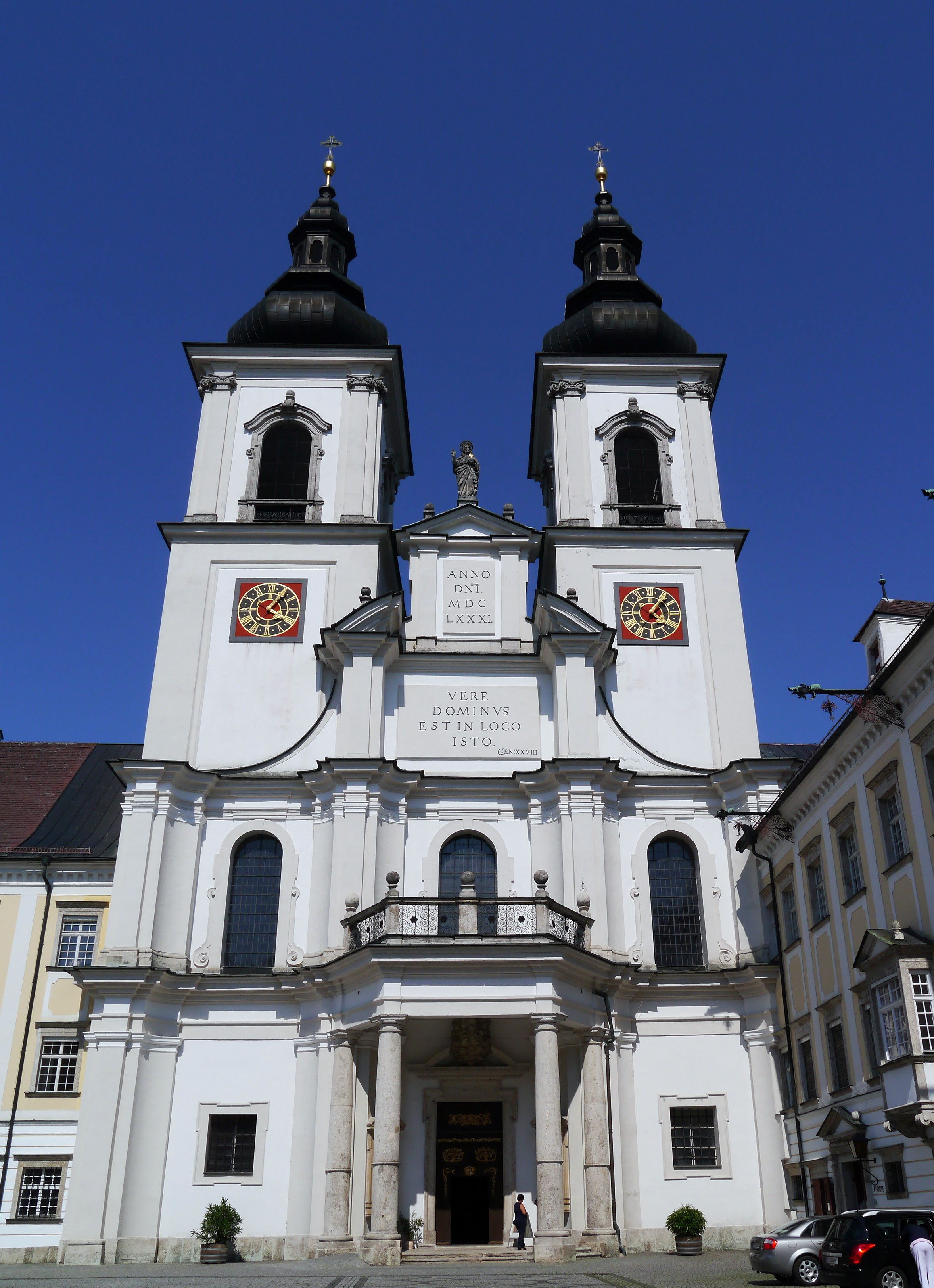 Facade of Kremsmünster Abbey church, Kremsmünster, Upper Austria